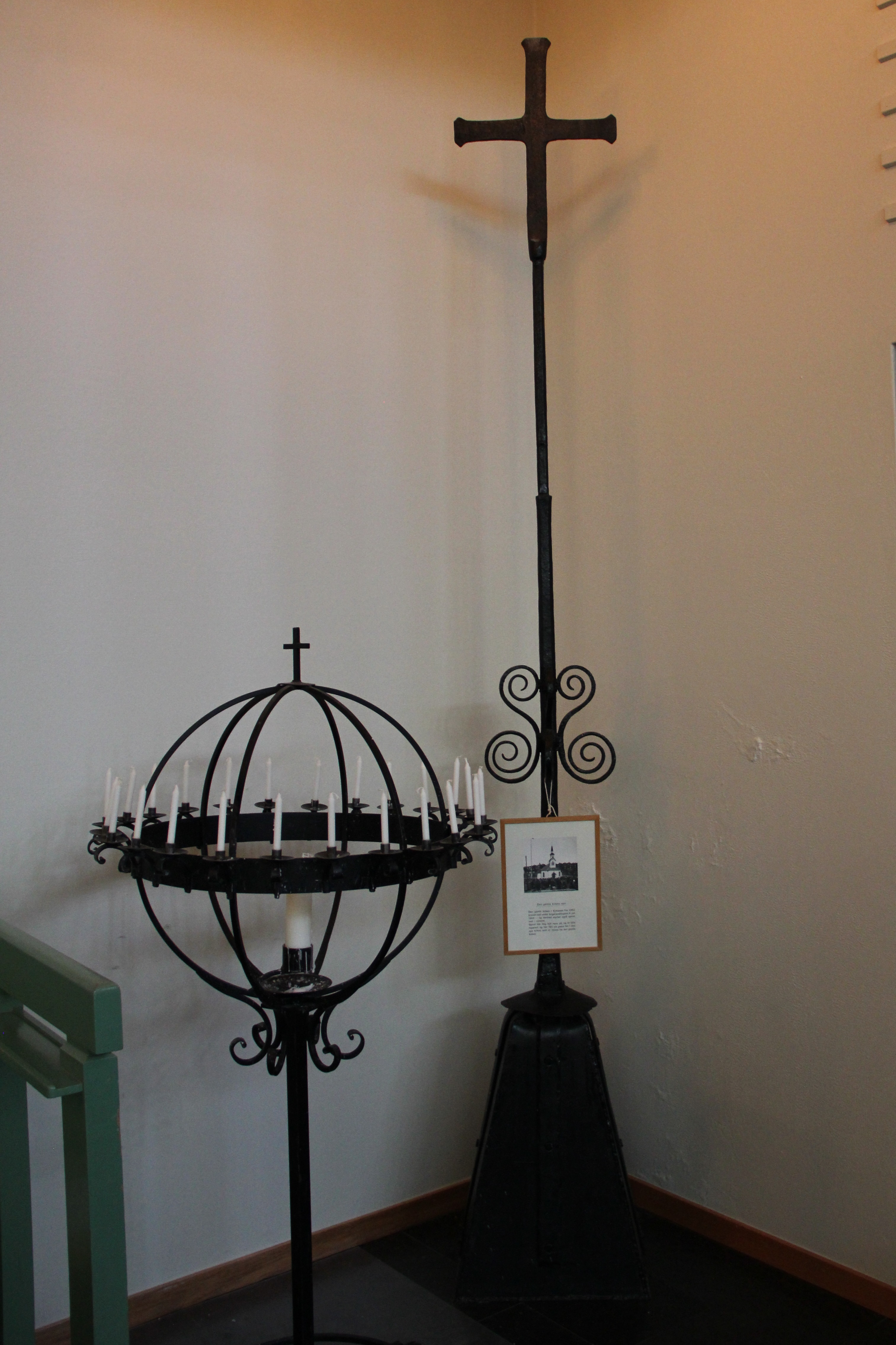 Kirkenes church, Kirkenes, Sør-Varanger, Norway. - Interior. - Tower spire of the old wooden church that damaged in 4th of July 1944 bombardment of Kirkenes. Church burned down completely. Spire was found among debris and taken to new church.